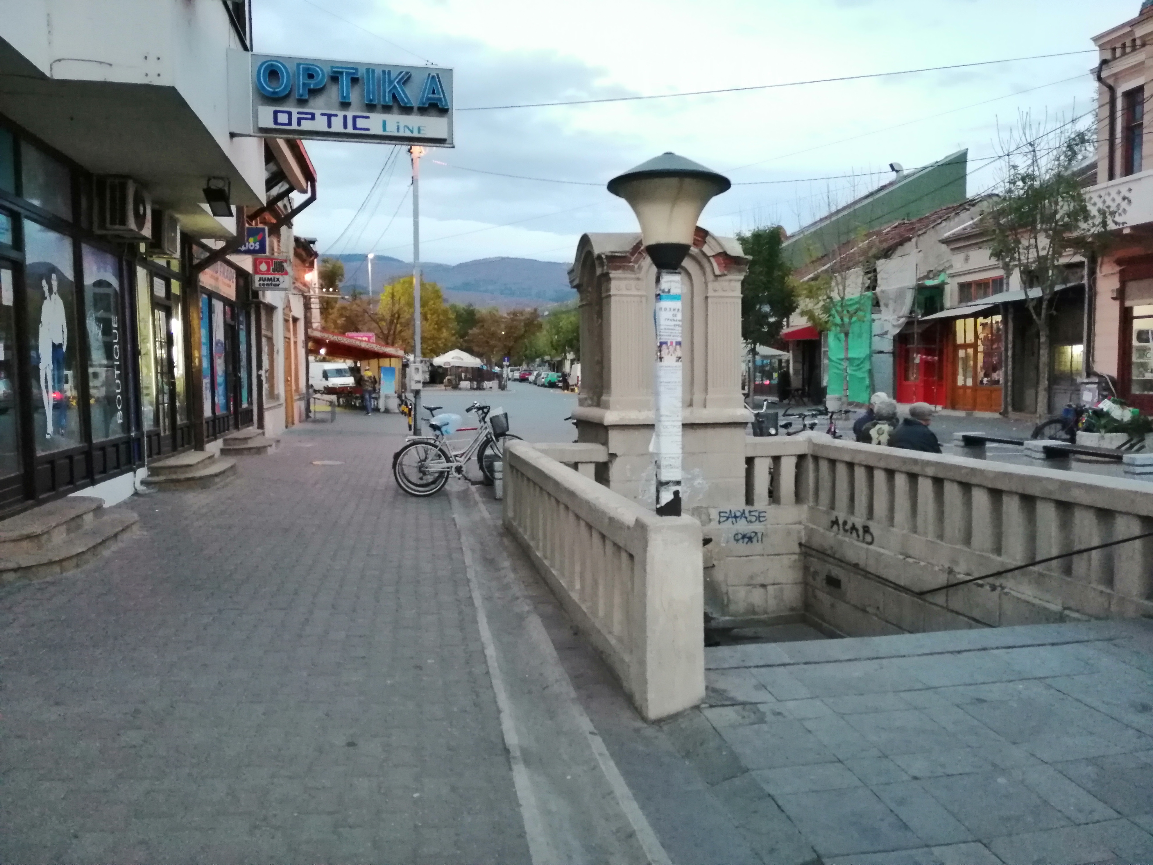 Gusevica in Pirot